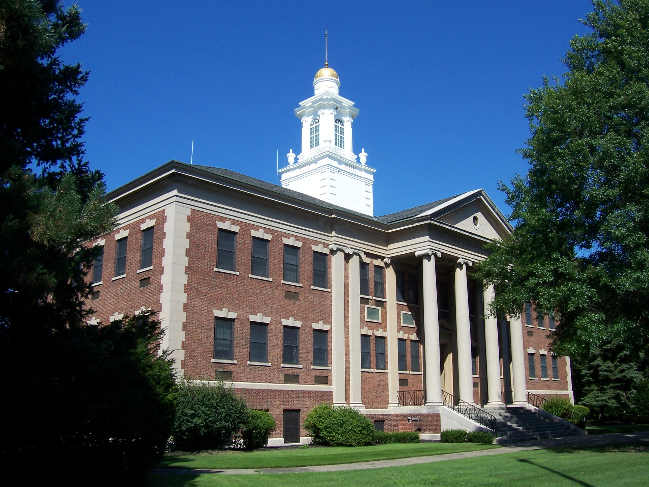 Irondequoit, New York town hall